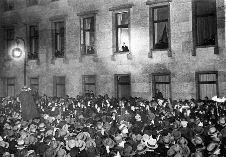 Hitler at the window of the Chancellery on Wilhelmstrasse in Berlin while receiving the ovations of the people on the evening of the day.